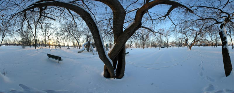 Oak Lawn, Illinois, Centennial Park, shot from N.E. corner.